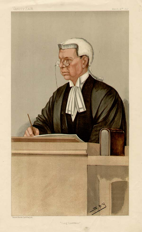 Caricature of John Compton Lawrance. Caption read "Long Lawrance".